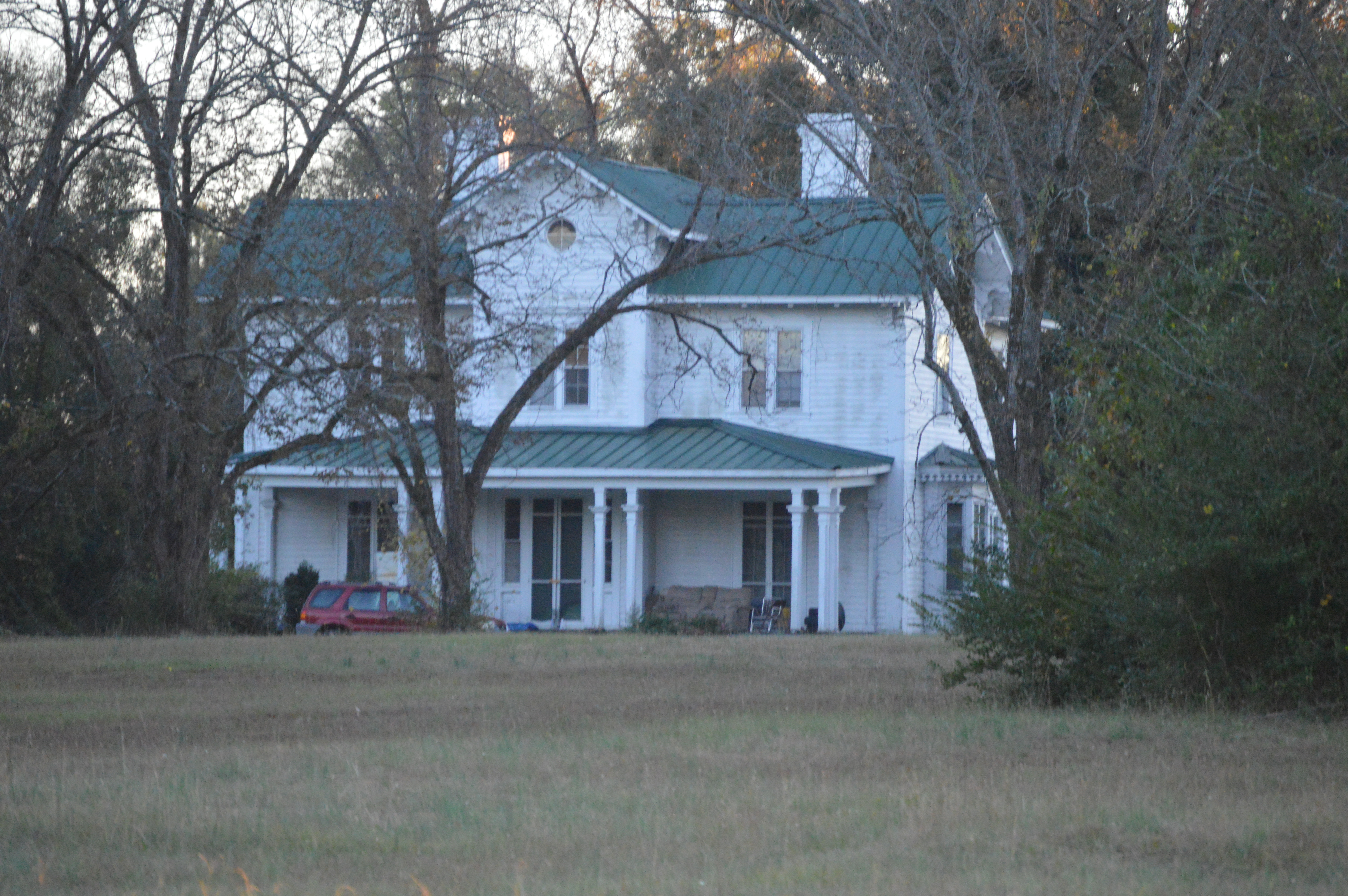 Front of the Covington Plantation House, located on U.S. Route 1 just south of Rockingham, North Carolina, United States. Built in 1850, it is listed on the National Register of Historic Places.